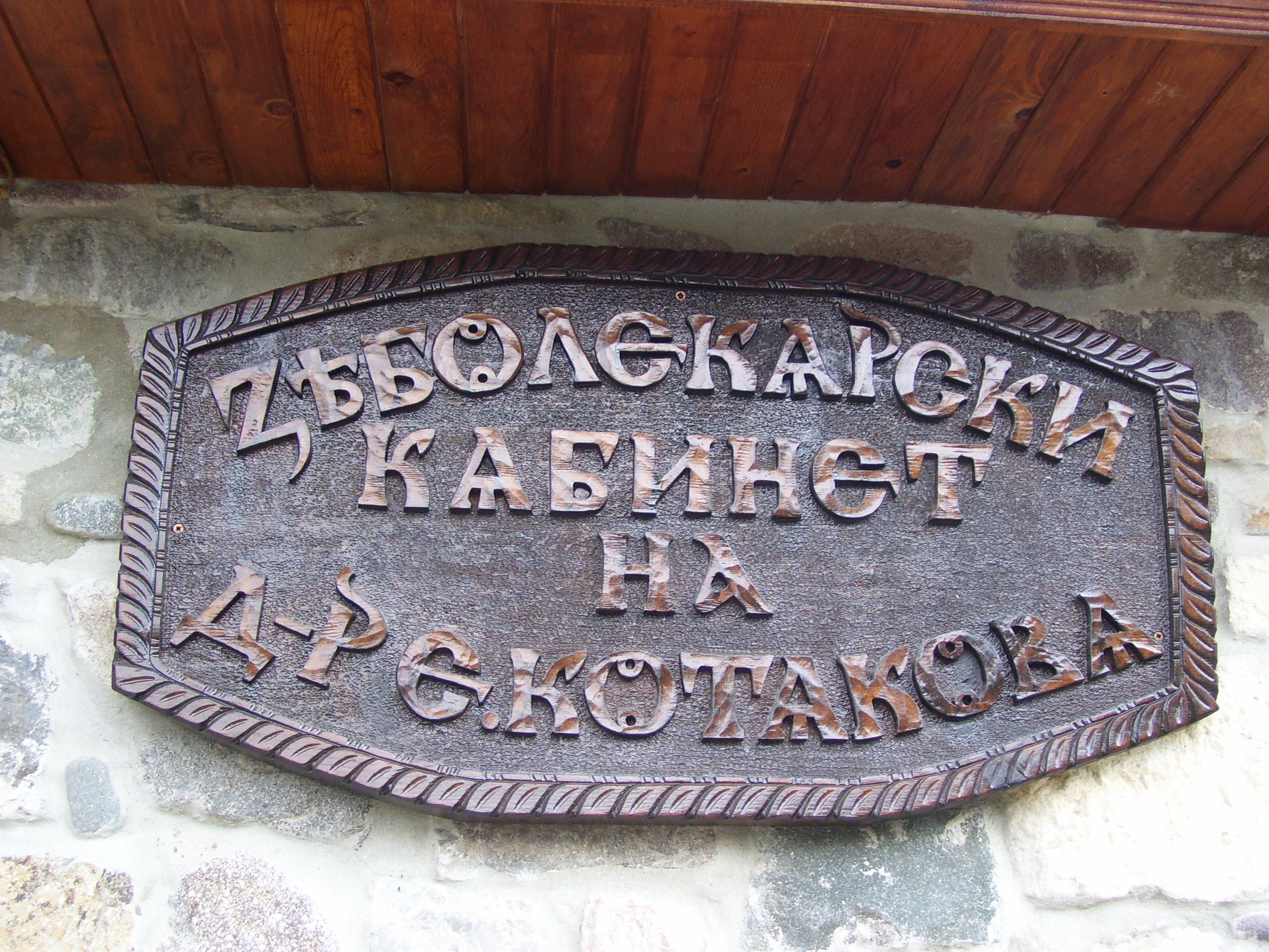 A pseudoarchaic sign in Sozopol, Bulgaria with wrong usage of yat instead of big yus and of small yus insted of а